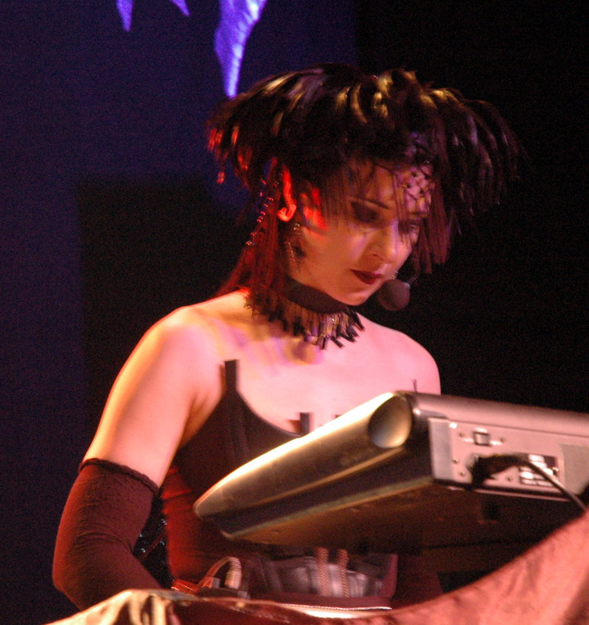 Anne Nurmi from Lacrimosa